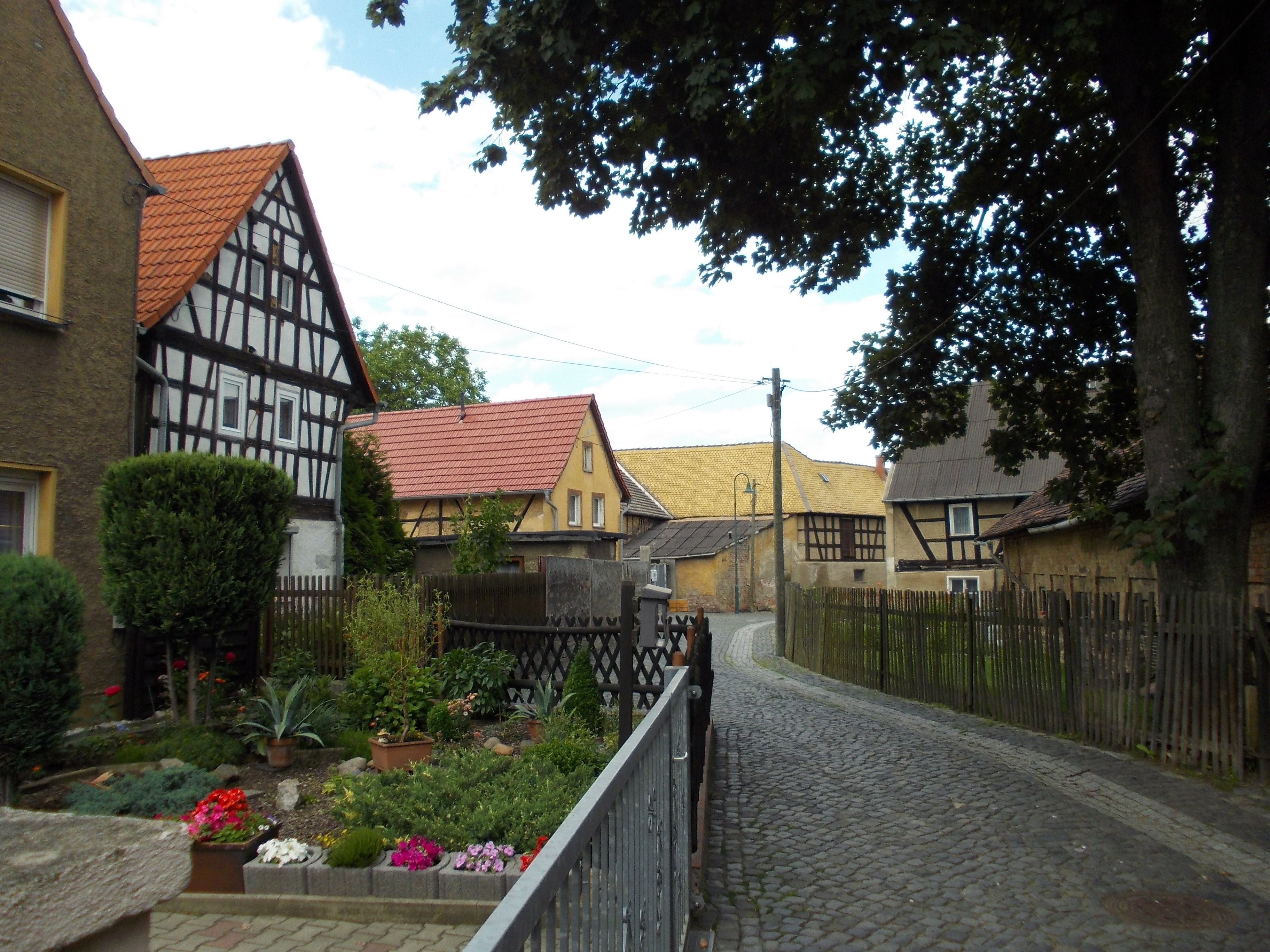 Southern part of Alt-Reuden (Elsteraue, district of Burgenlandkreis, Saxony-Anhalt)